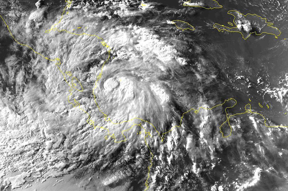 Hurricane Cesar before landfall. This is a retouched picture, which means that it has been digitally altered from its original version. Modifications: Increased brightness. Modifications made by Nilfanion.